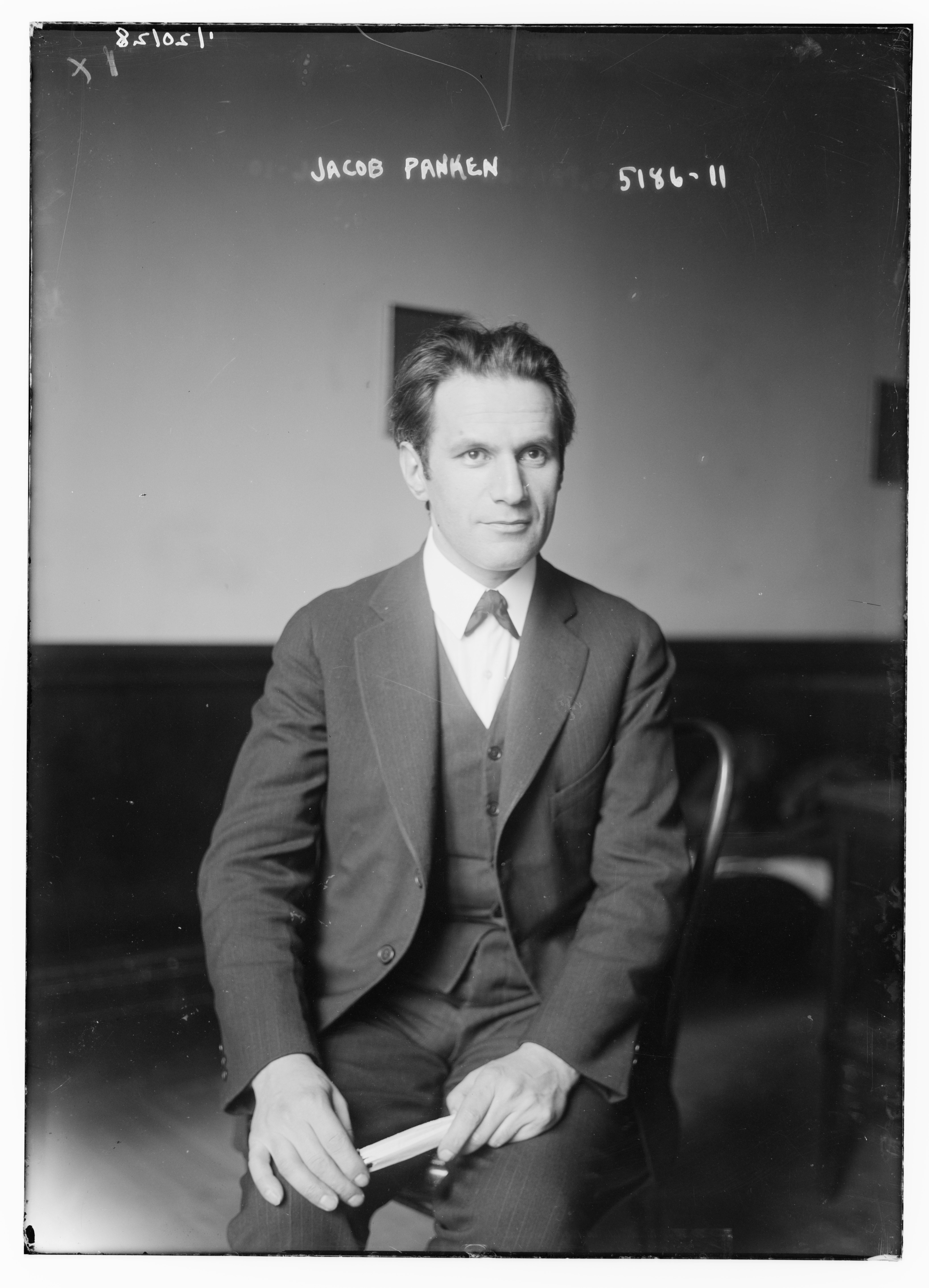 Jacob Panken sitting in 1920